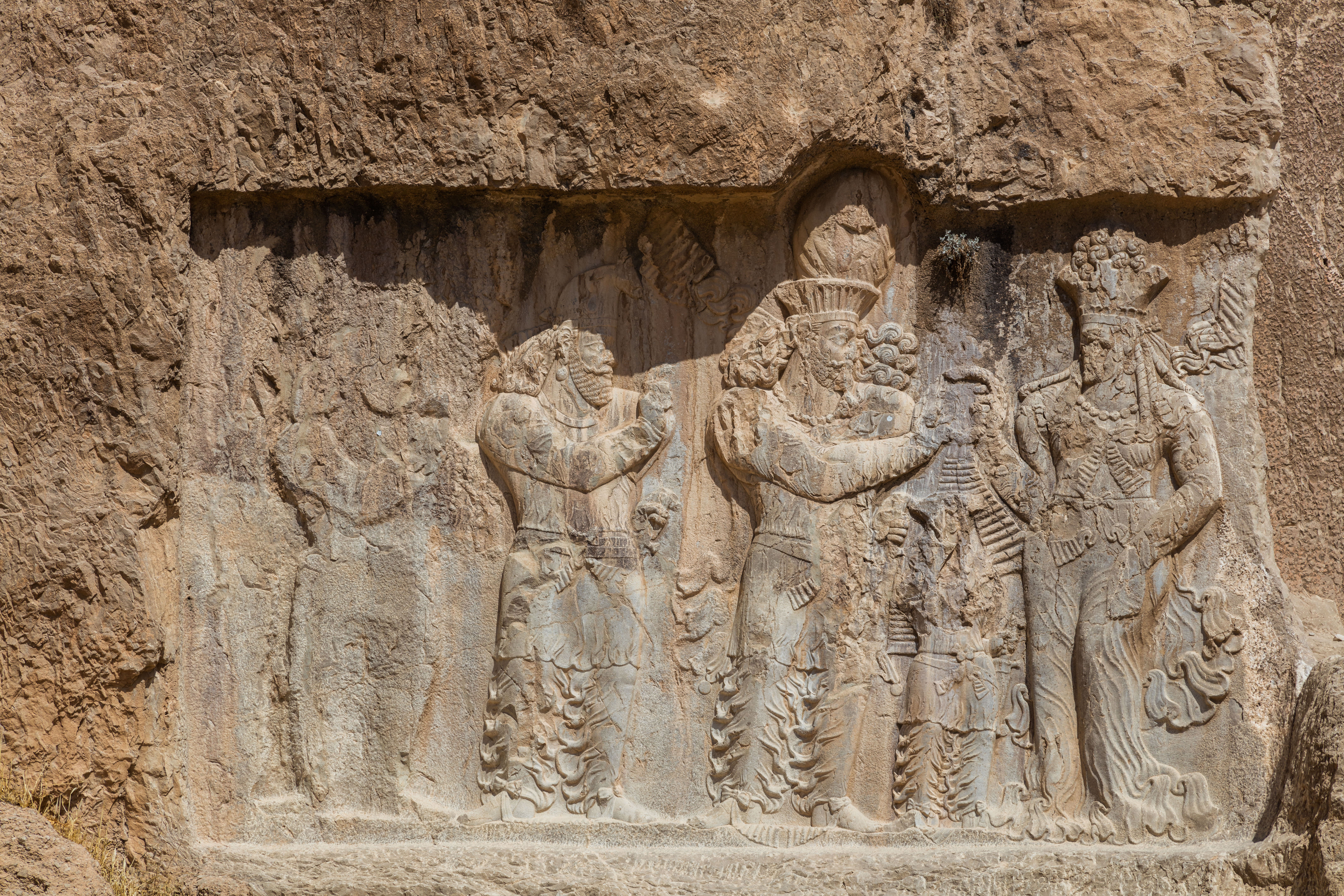 Naghsh-e rostam, Iran